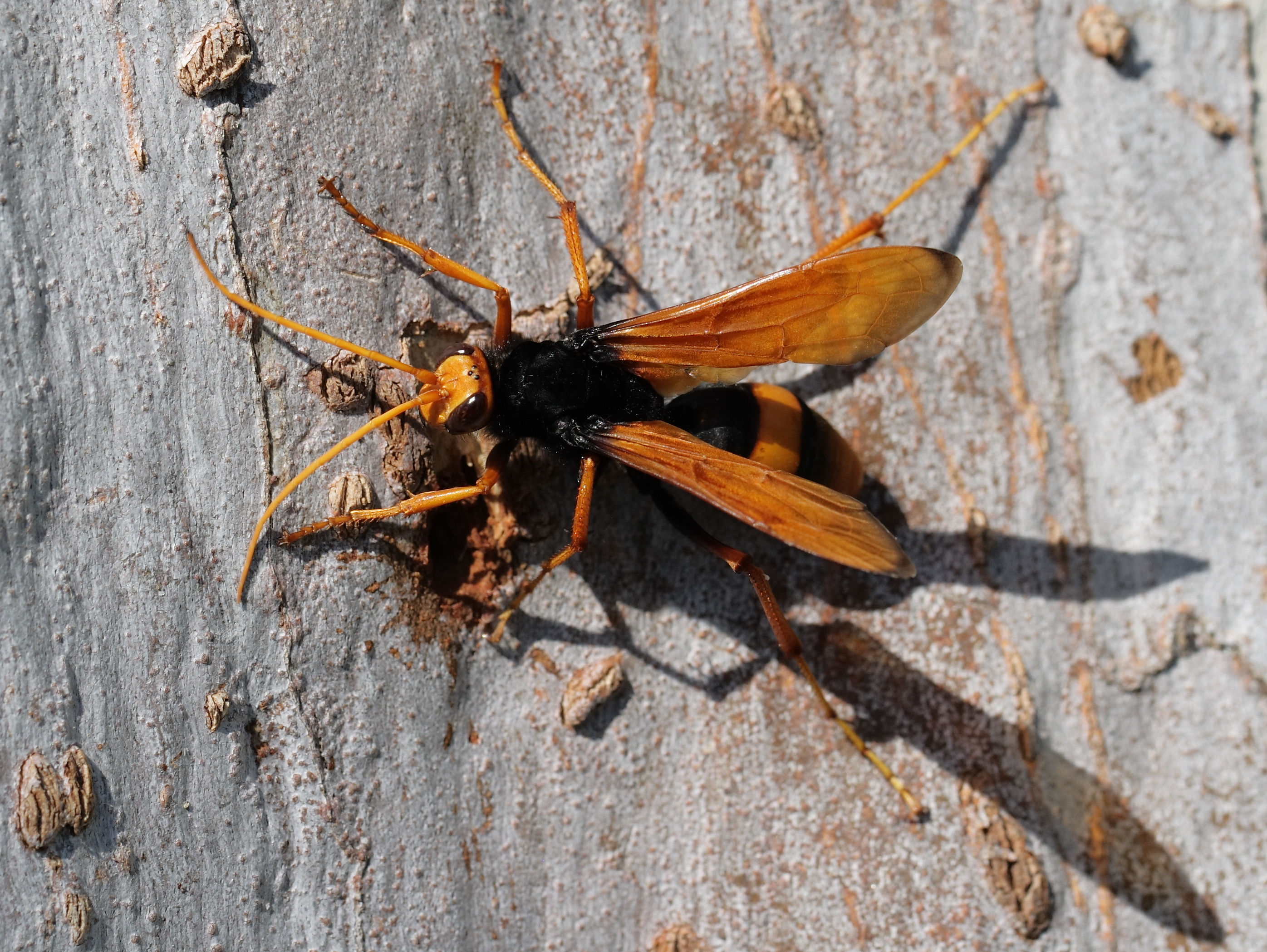 A spider wasp (Cryptocheilus bicolor) at St John's Ashfield in Sydney, NSW, Australia.